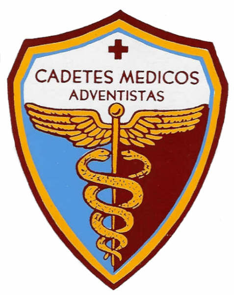 Missionary Cadets coat of arms.